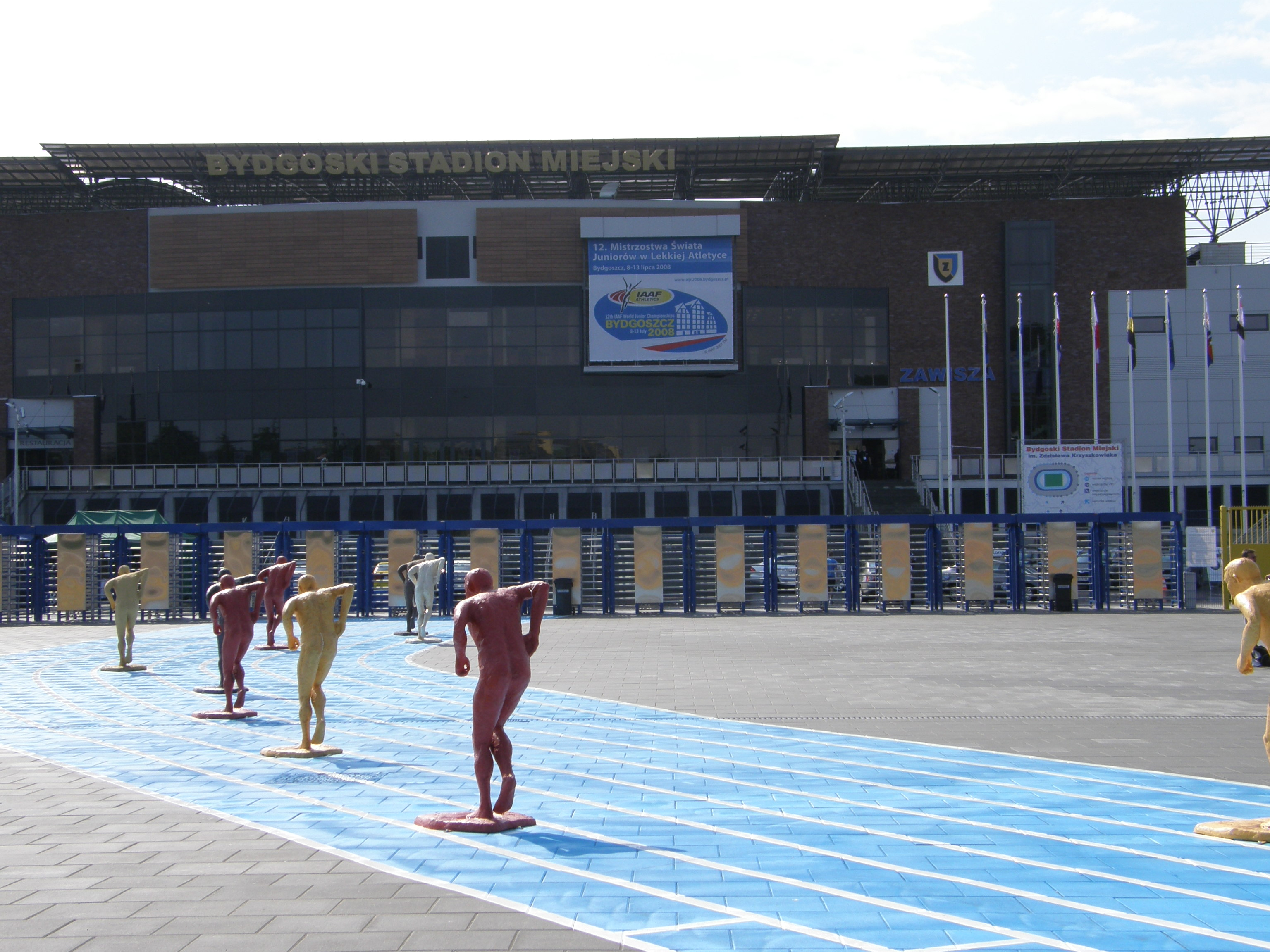 2008 IAAF World Junior Championships